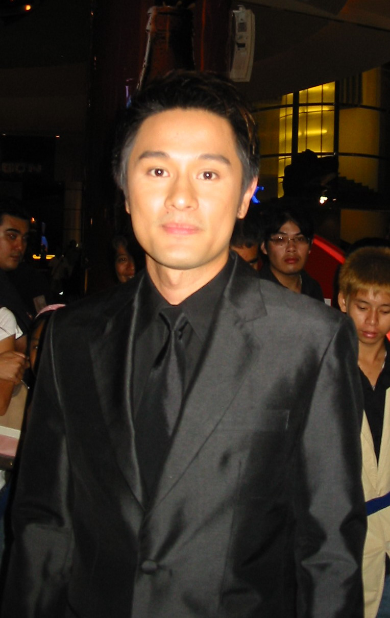 Ussadawut Learngsunthorn at Star Entertainment Awards 2007